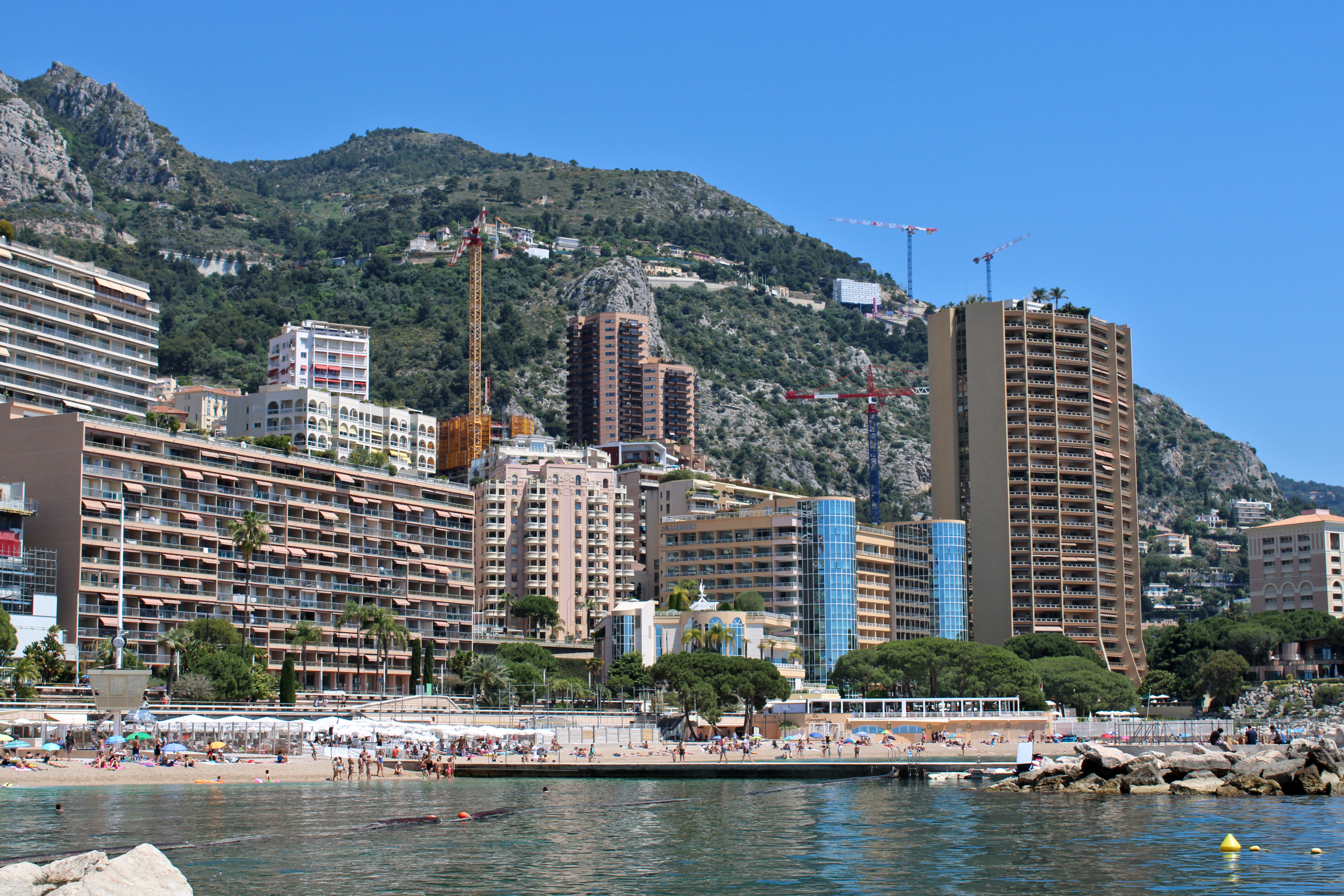 Larvotto (Monaco)